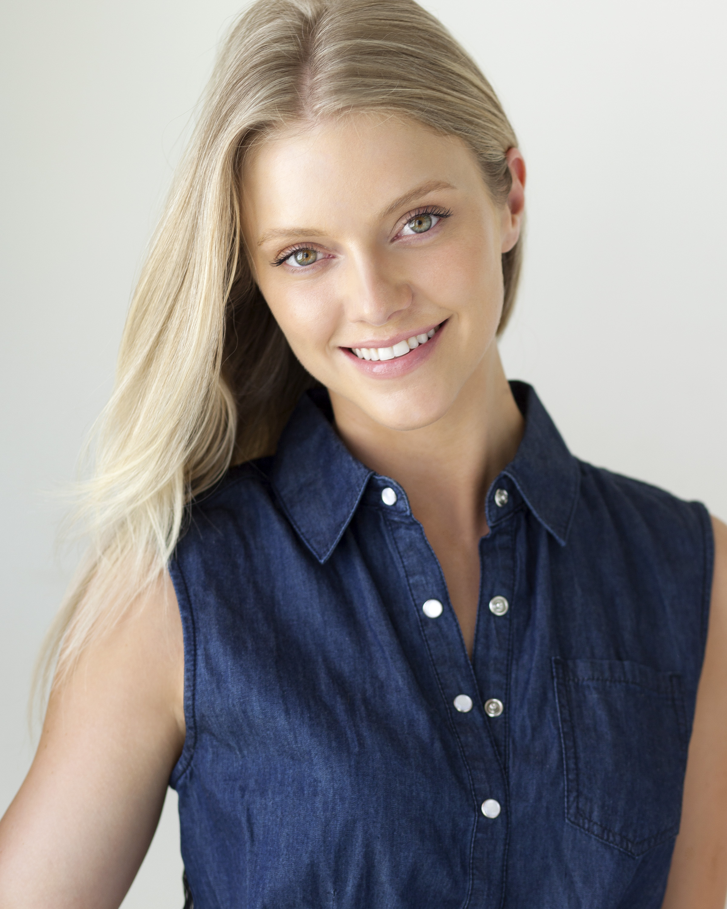 This is a photo shot of Elle Evans by Marcel Indik.